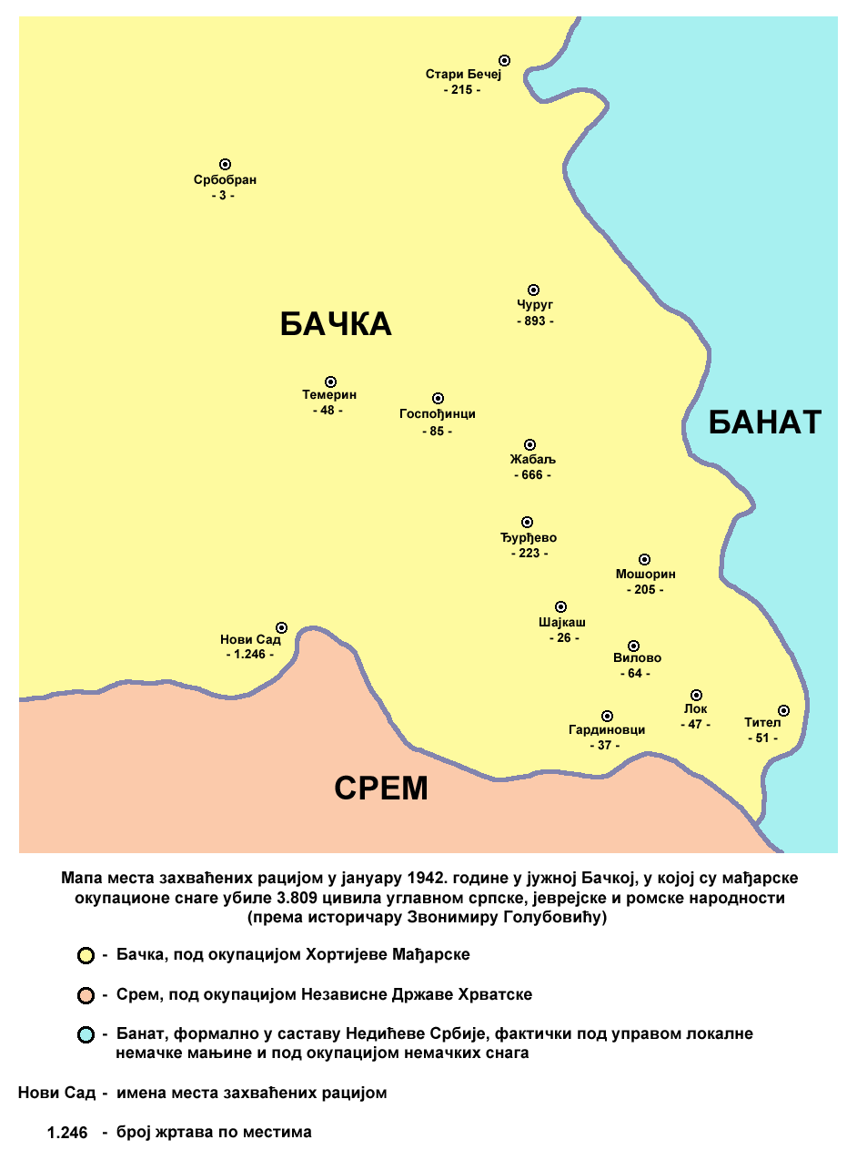 Map of places affected by the raid in January 1942 in southern Bačka, in which Hungarian occupational forces killed 3,809 civilians mostly of Serb, Jewish and Roma ethnicity (according to historian Zvonimir Golubović) - Serbian language version